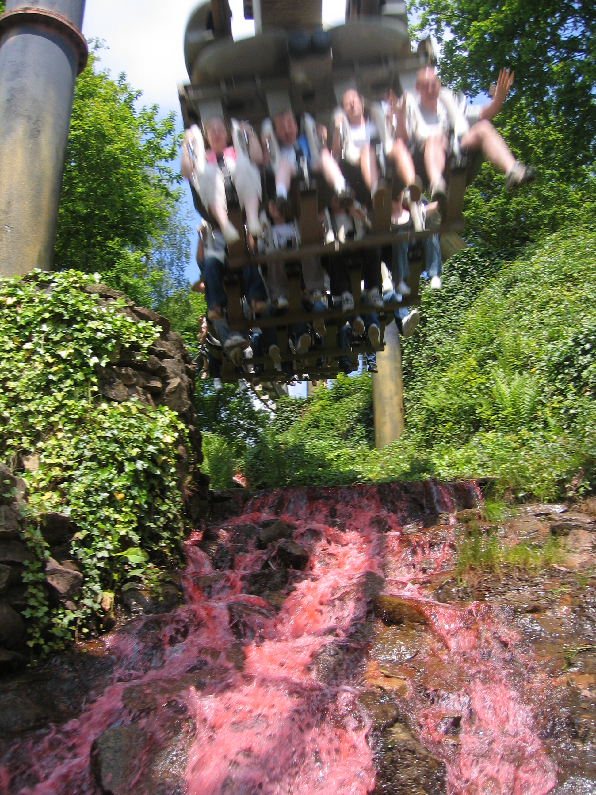 Roller Coaster Nemesis at Alton Towers, United Kingdom